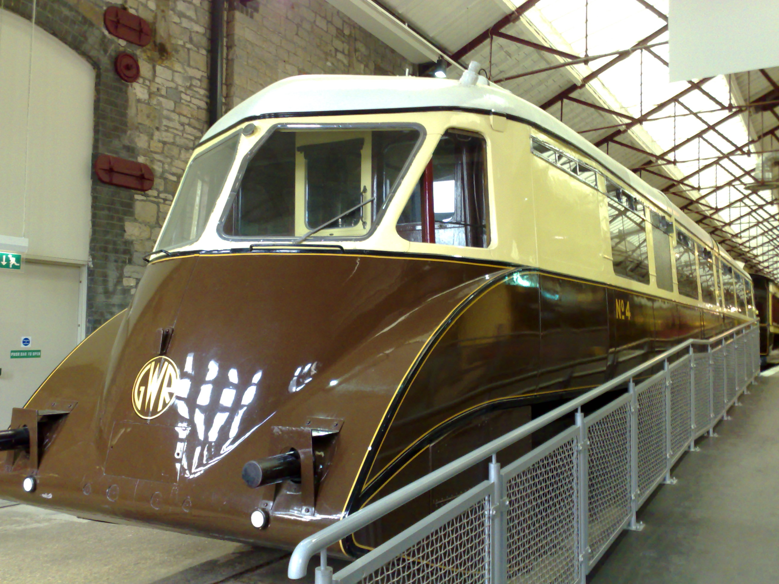 1934 GWR diesel railcar At the STEAM Museum in Swindon - Taken at 2:02 PM on October 20, 2007 - cameraphone upload by ShoZu